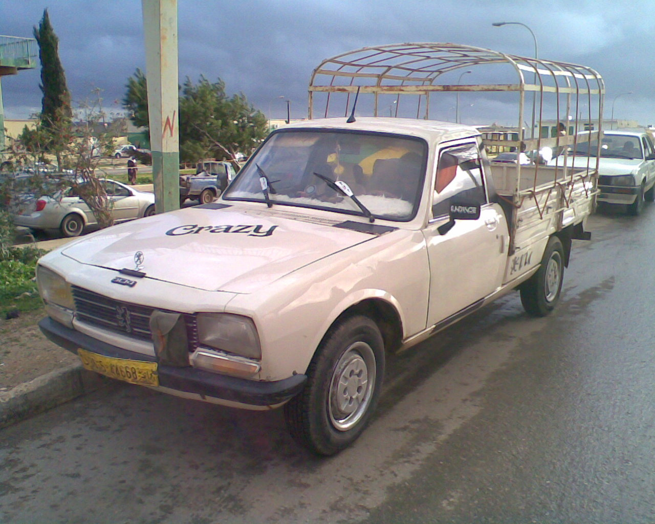 Peugeot 504, the truck version.